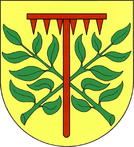 Municipal coat of arms of Vrbičany village, Litoměřice District, Czech Republic.